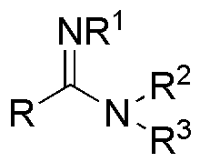 General chemical structure of amidines.